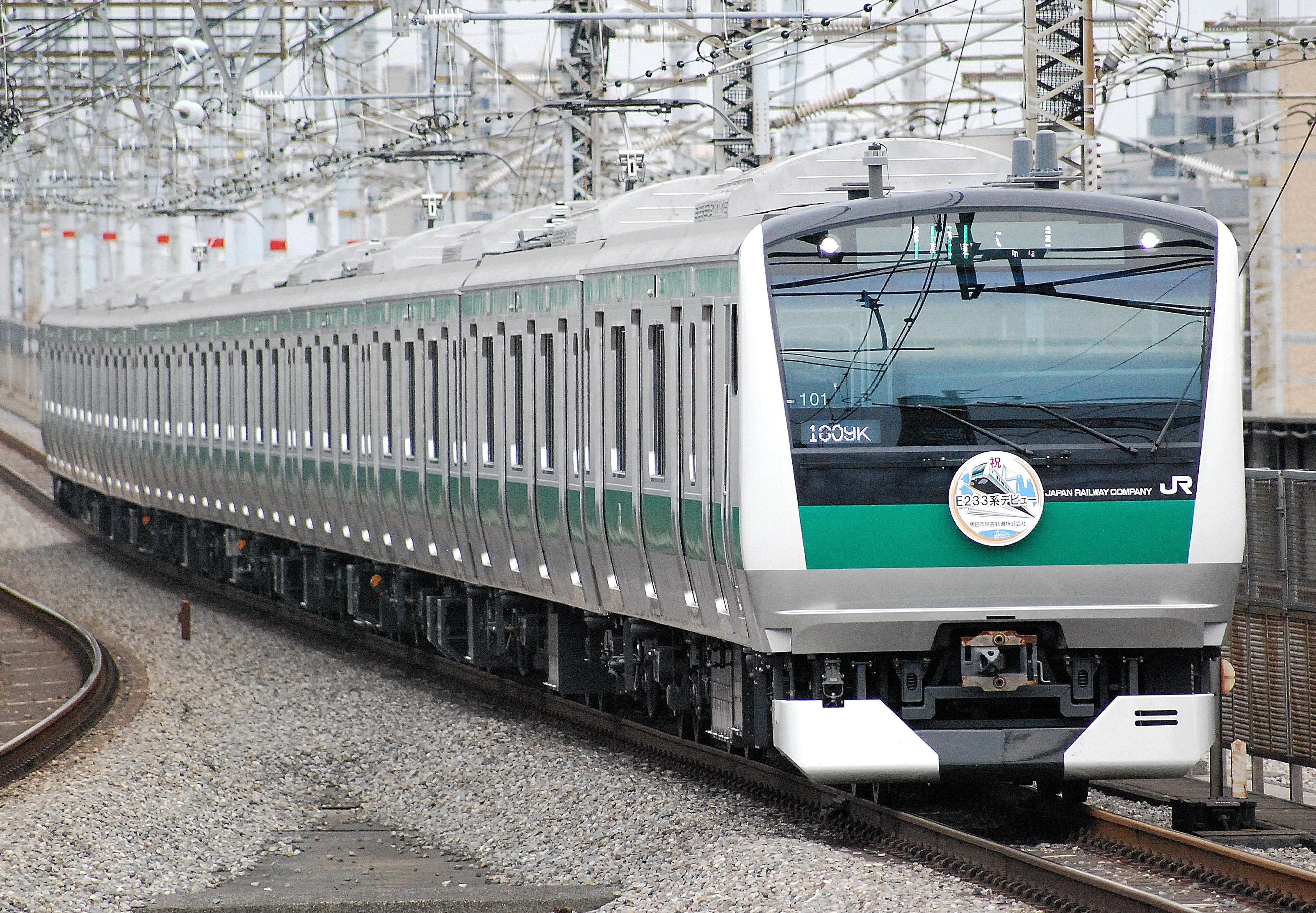 JR East E233-7000 series EMU set 101 approaching Yonohommachi Station on a down Saikyo Line service